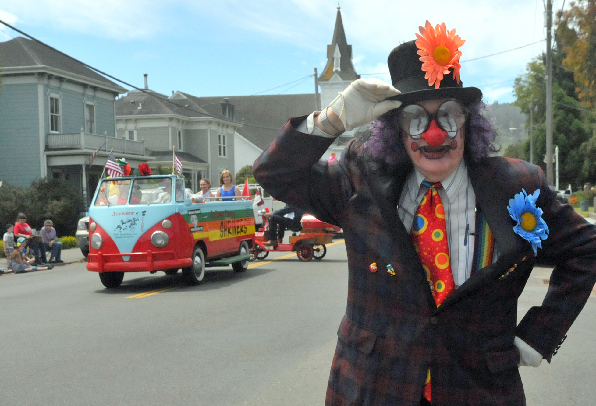 A Shriner clown posing in front of their rainbow VW van, at the Fourth of July Parade in Ferndale, California on 4 July 2016.